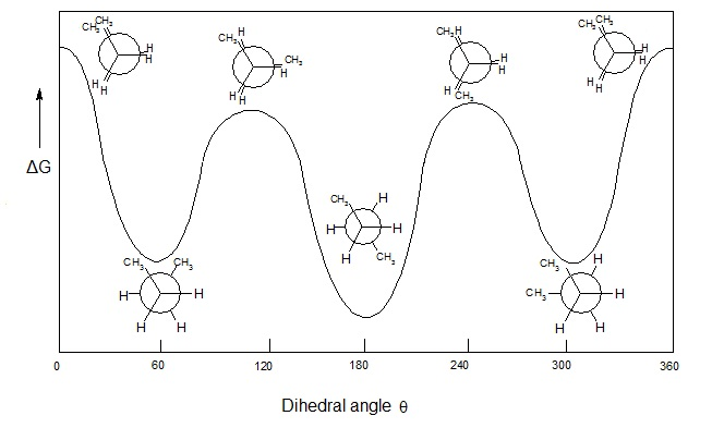 Free energy diagram of butane as a function of dihedral angle.